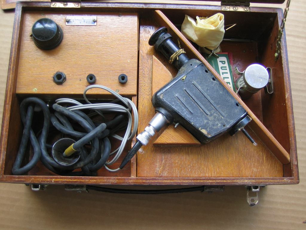 Chicken sexing machine used in sexing poultry - baby chickens.